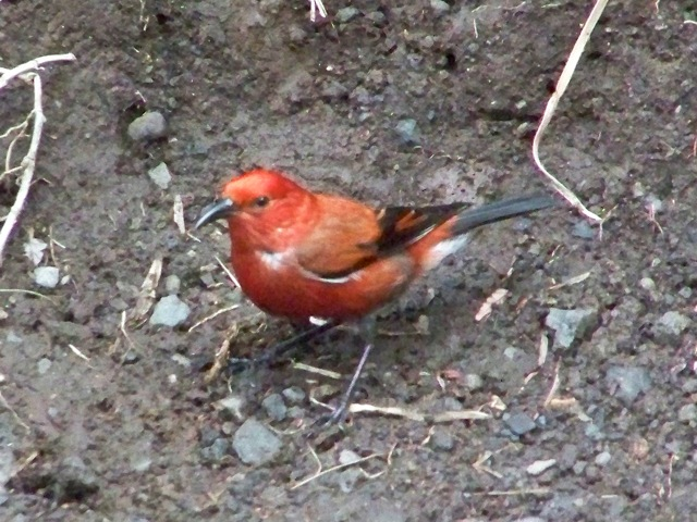 'Apapane (Himatione sanguinea) in Hawaii Volcanoes National Park